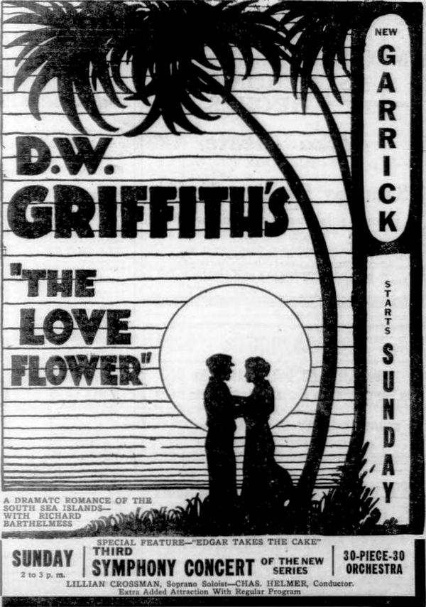 Newspaper advertisement for the American film The Love Flower (1920), on page 9 of the February 12, 1921 Duluth Herald.